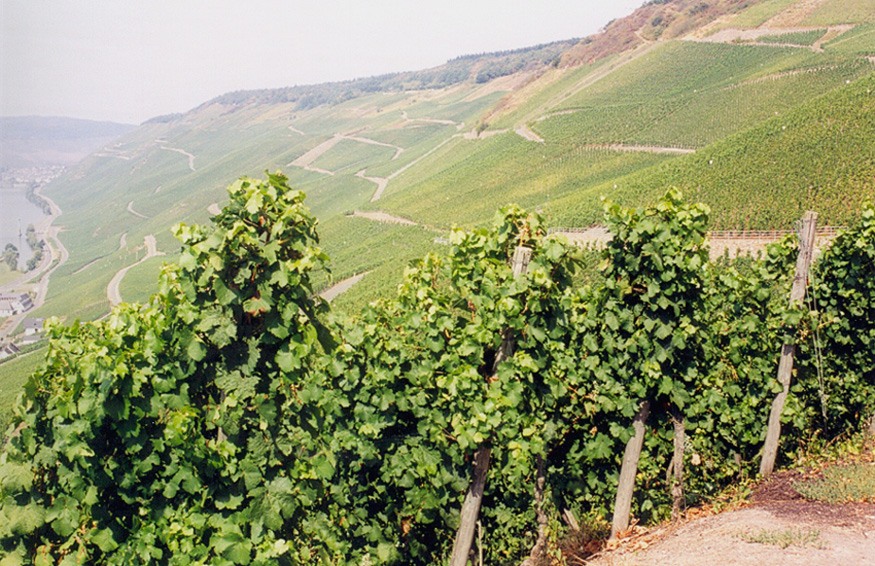 From author "Grape vines in the Schäferhöhe area, above Graach, just downstream of Bernkastel. Riesling, probably."